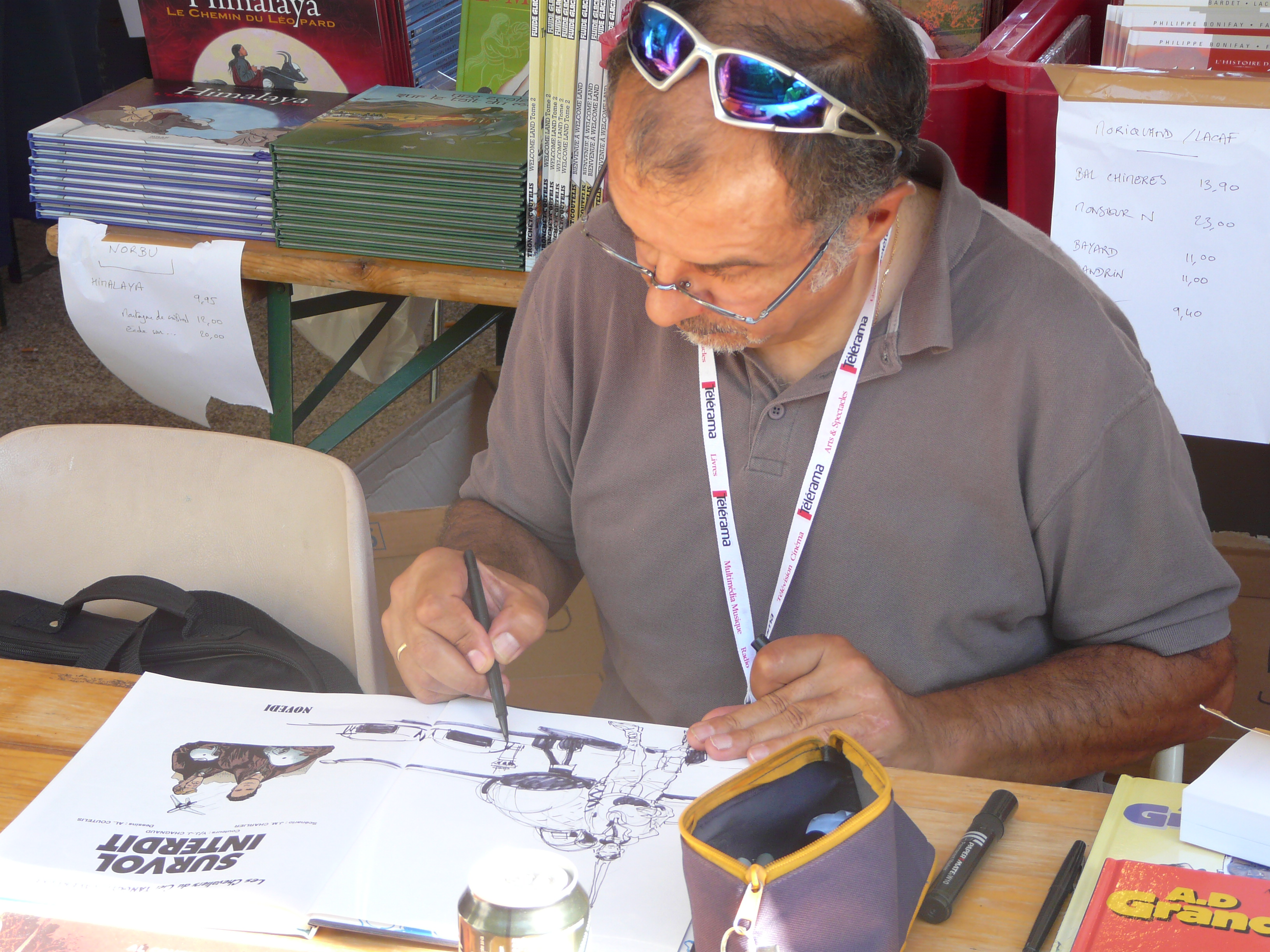 Photographs taken during the International Comic Festival of Sollies Ville, France